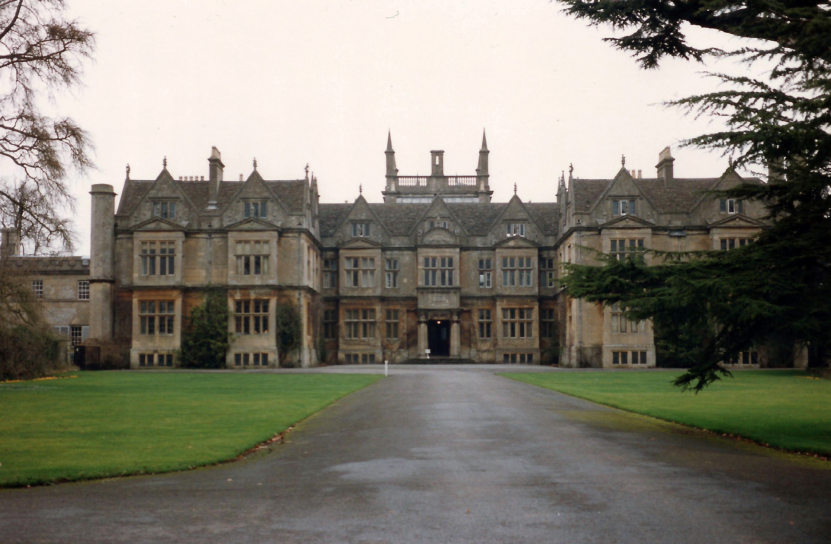 Frontage of Corsham Court, Corsham, Wiltshire, UK